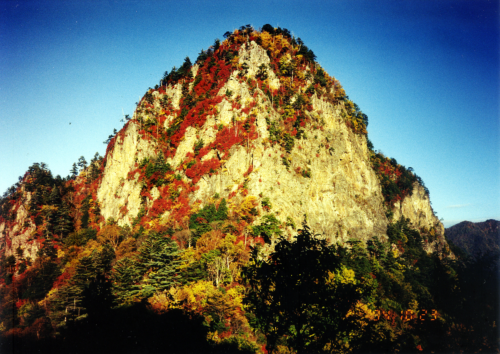 Mount Akaiwa (Akaiwa-dake) seen from the west.